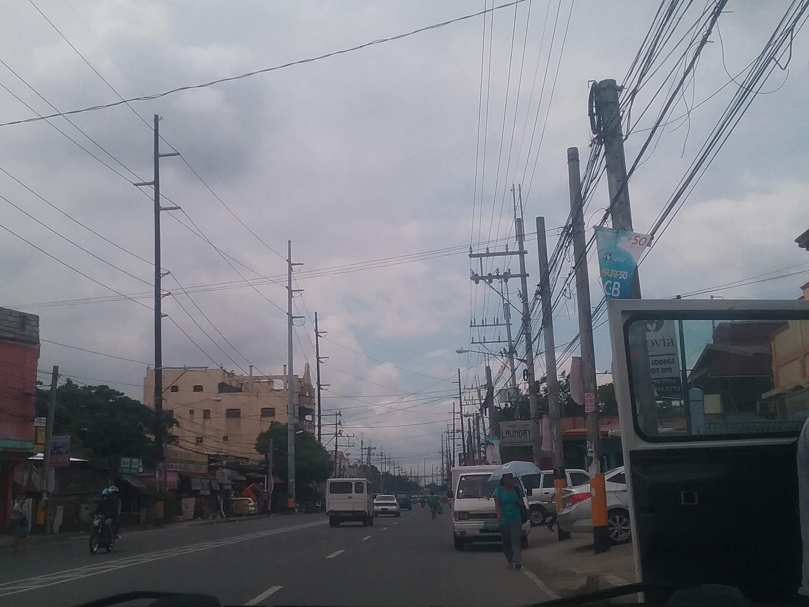 N1 (Maharlika Highway/Daang Maharlika, or National Highway) in Canlalay, Biñan, Laguna